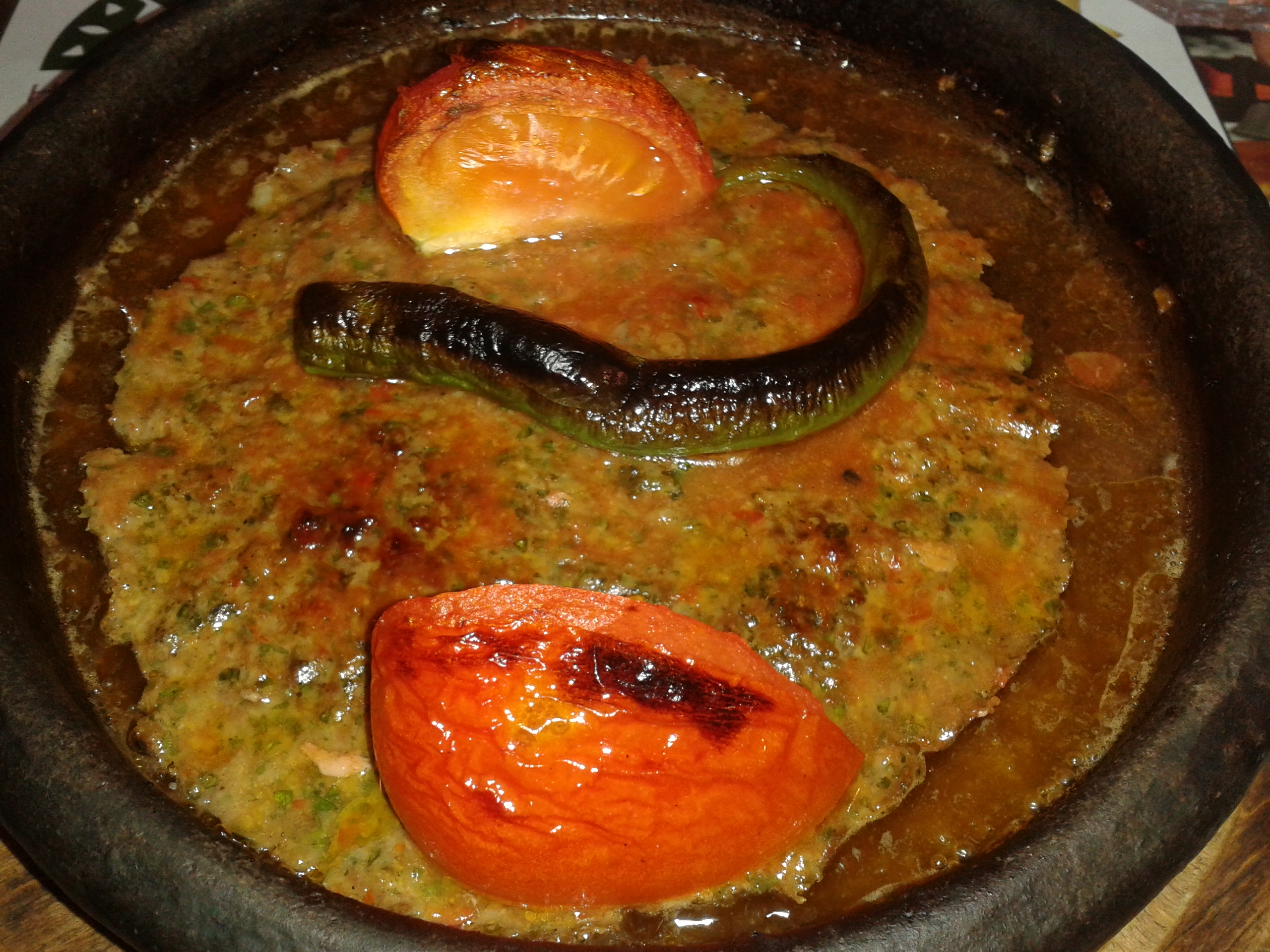 "Tepsi kebabı" (lit. "tray kebab") from Antakya and the rest of Hatay province, at an Antakya restaurant in Ankara